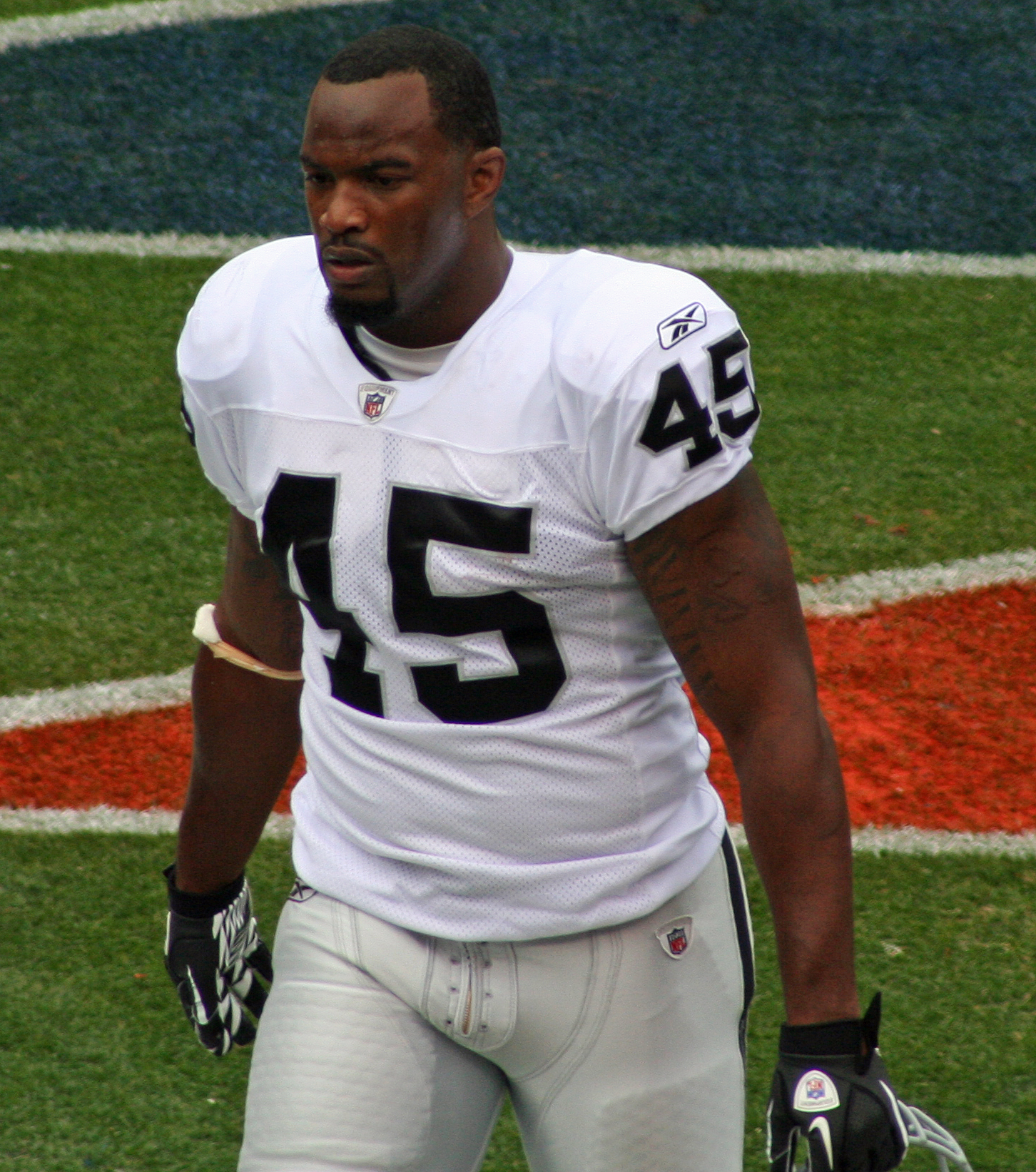 Marcel Reece, a player on the Oakland Raiders American football team.